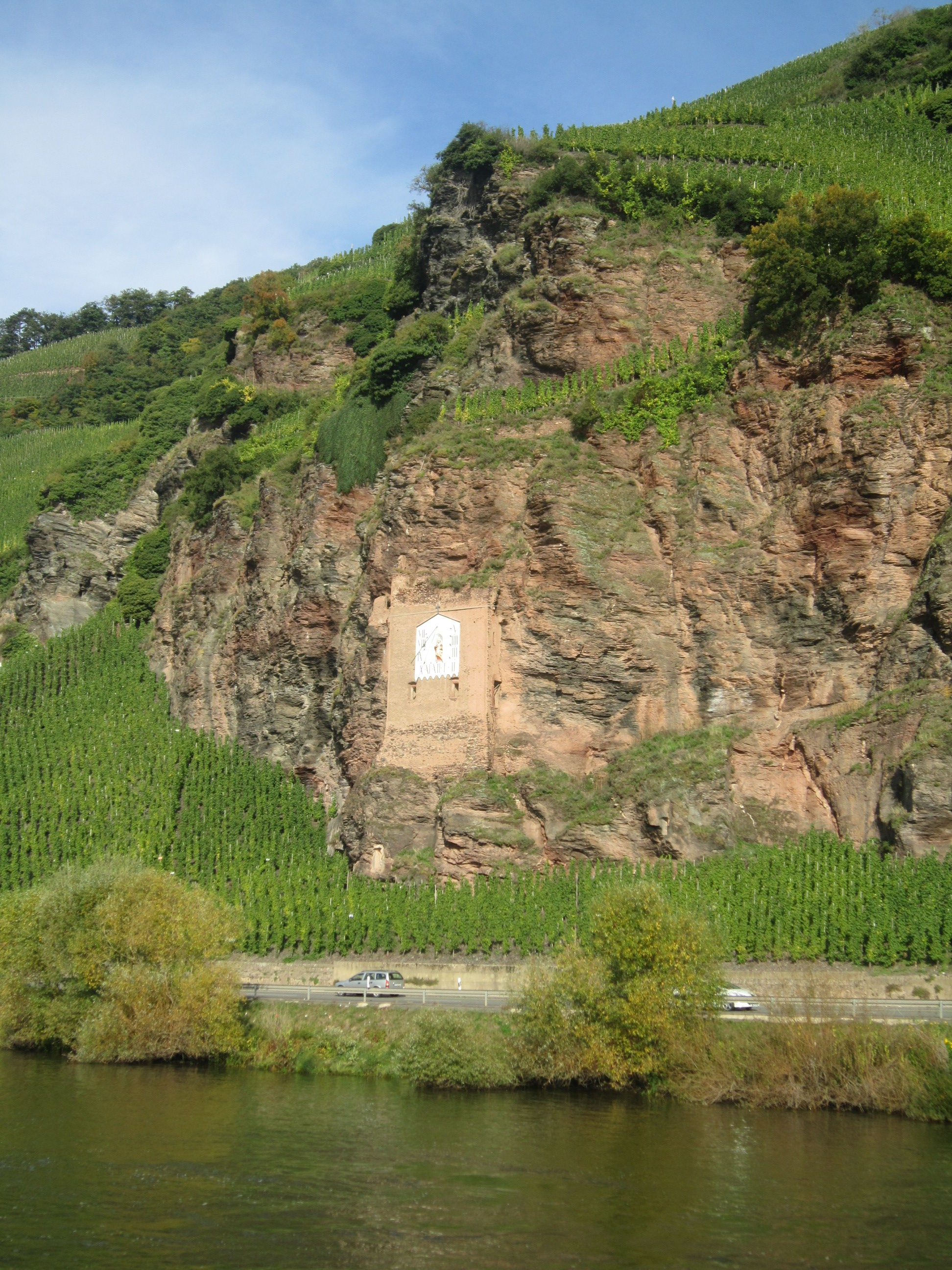 Moselle River, Bundesstraße 53, Sundial, vinyards and cliffs between Ürzig and Kröv